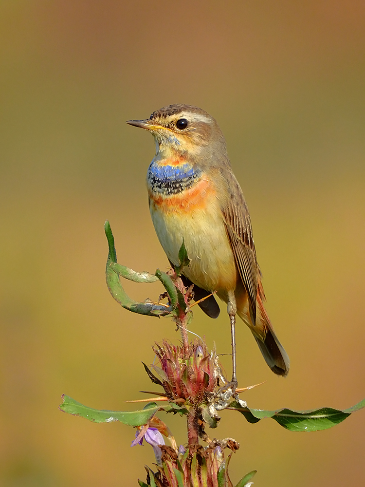 Bluethroat (Luscinia svecica) Photograph by Shantanu Kuveskar Location : Mangaon, Raigad, Maharashtra, India